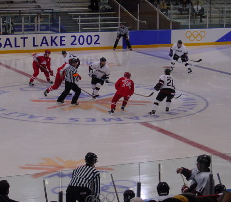 Ice hockey match Austria vs. Latvia, Preliminary Round of 2002 Winter Olympics hockey tournament, February 9, 2002, Provo UtahAustria vs Latvia